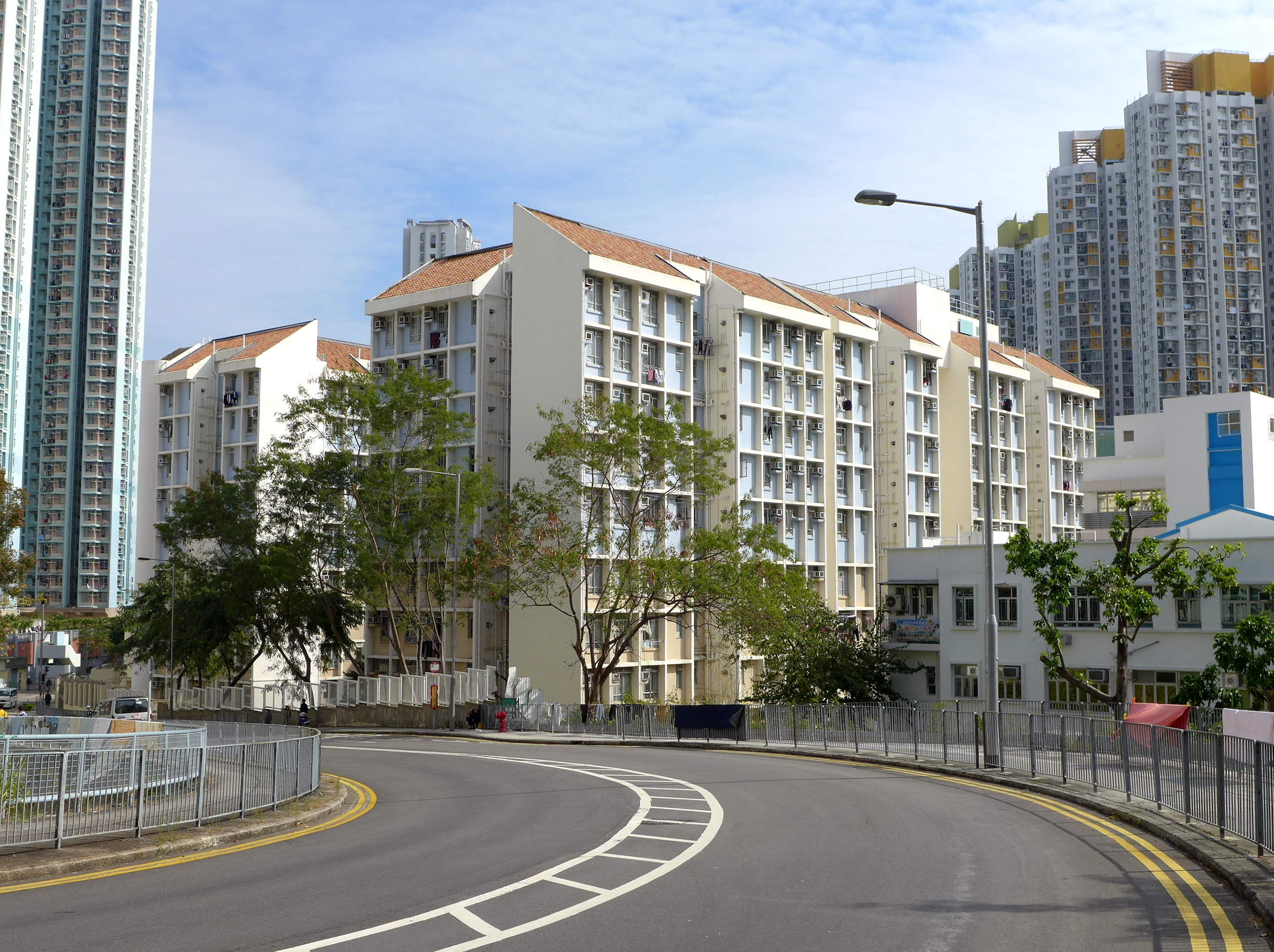 Pak Tin Estate On Tin House